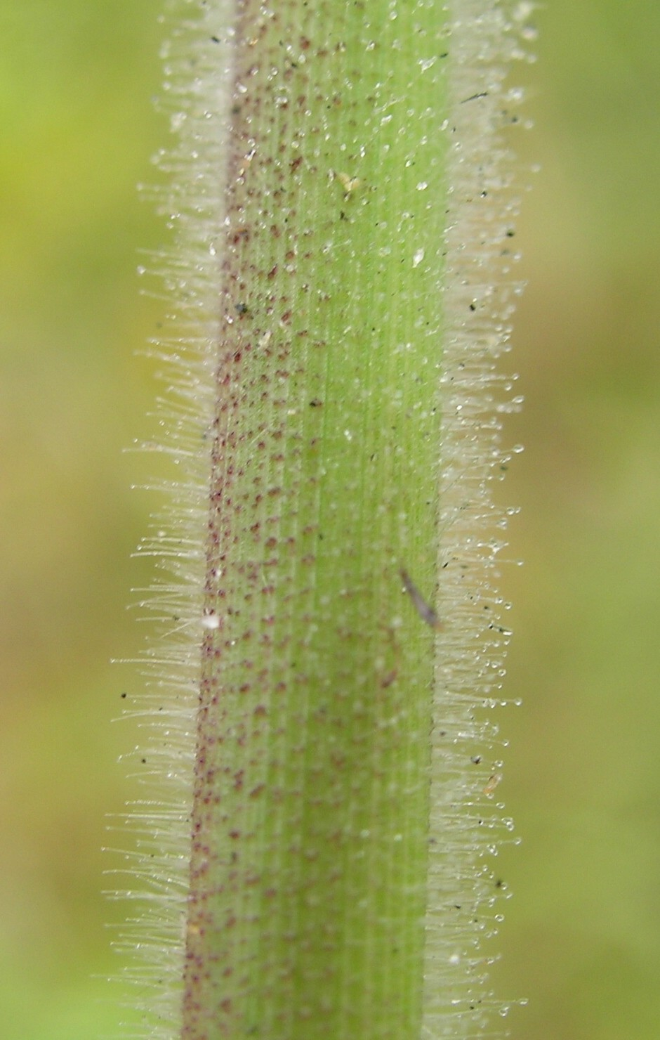 Leaves and stems are strongly scented (molasses-like), hairy and sticky.